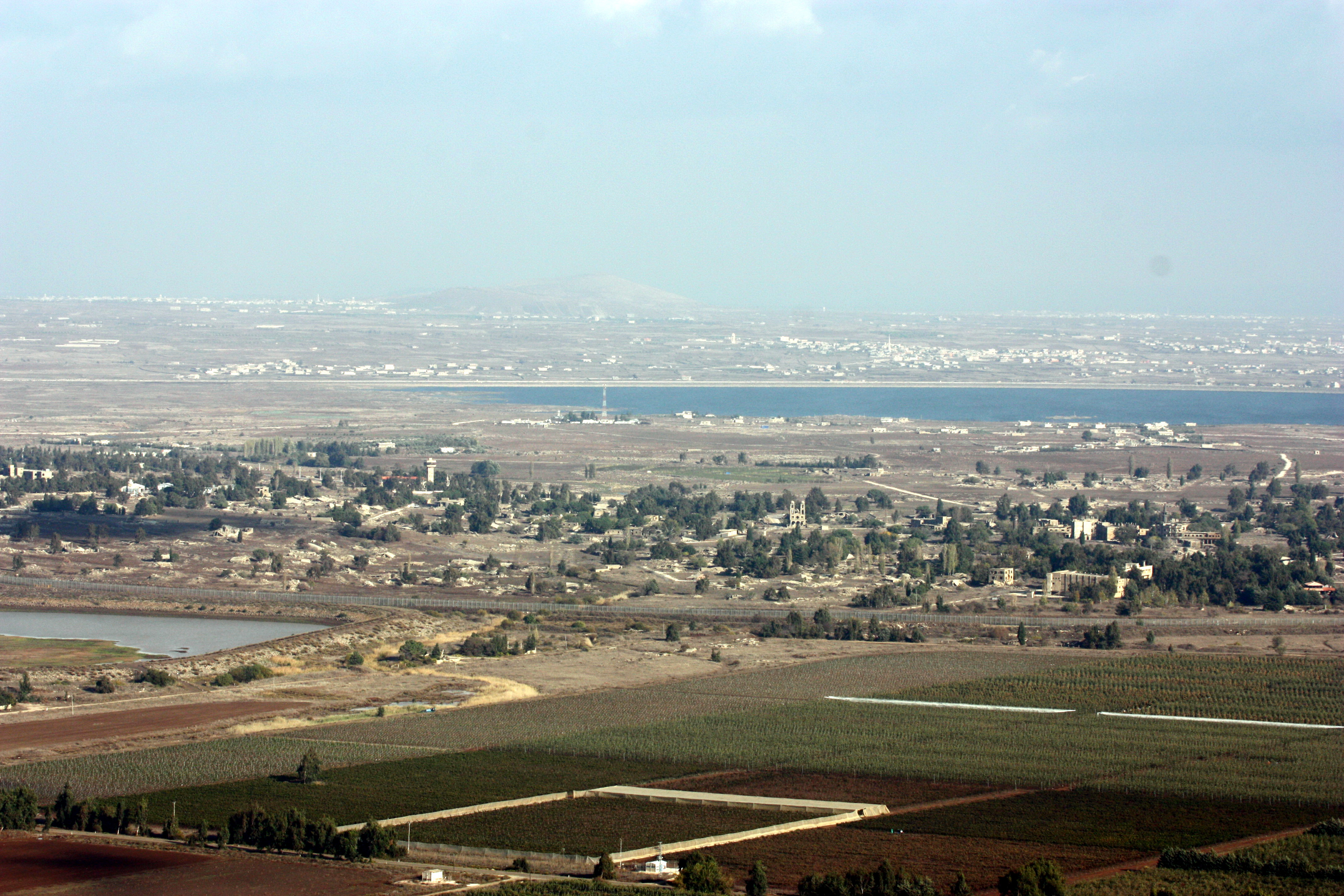 View from Mt. Bental on Quneitra in Golan Heights.